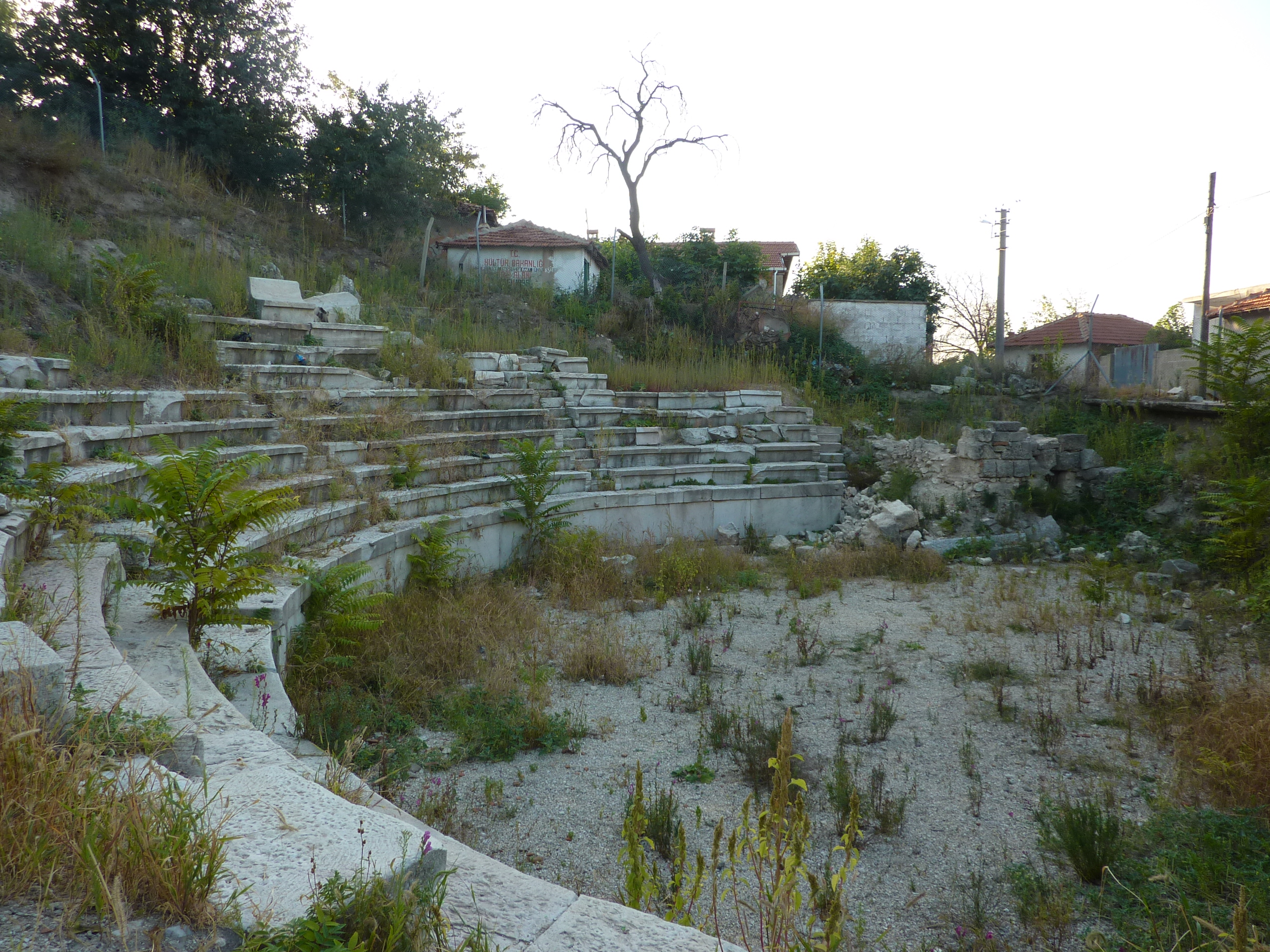 The Roman amphitheater in the city of Vize, Turkey